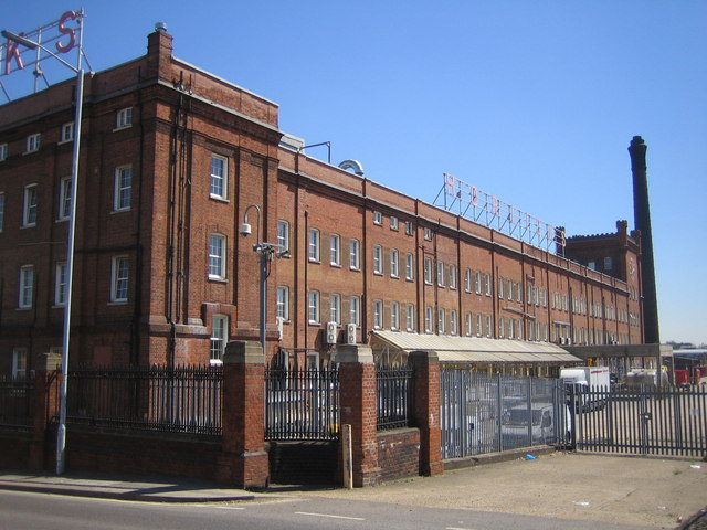 Horlicks Factory - Slough, from Stoke Poges Lane One of Slough's iconic images, the Horlicks factory on Stoke Poges Lane was completed in 1908 at a cost of £28,000. The brand name and the site now belong to GlaxoSmithKline. The factory is sited away from other large buildings and is directly alongside the Great Western Main Line railway -- both facts meaning that it is a very visible landmark in the town.